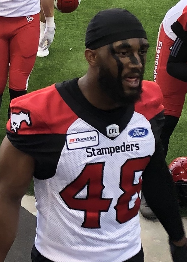 Wynton McManis, linebacker for the Calgary Stampeders.